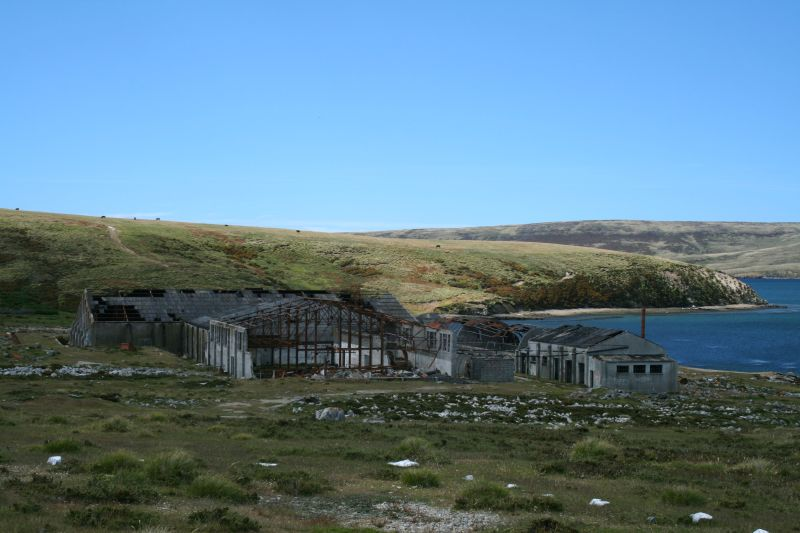 The former freezer plant at Ajax Bay, East Falkland. It was later used as a field hospital during the British landings at San Carlos during the Falklands War in 1982.